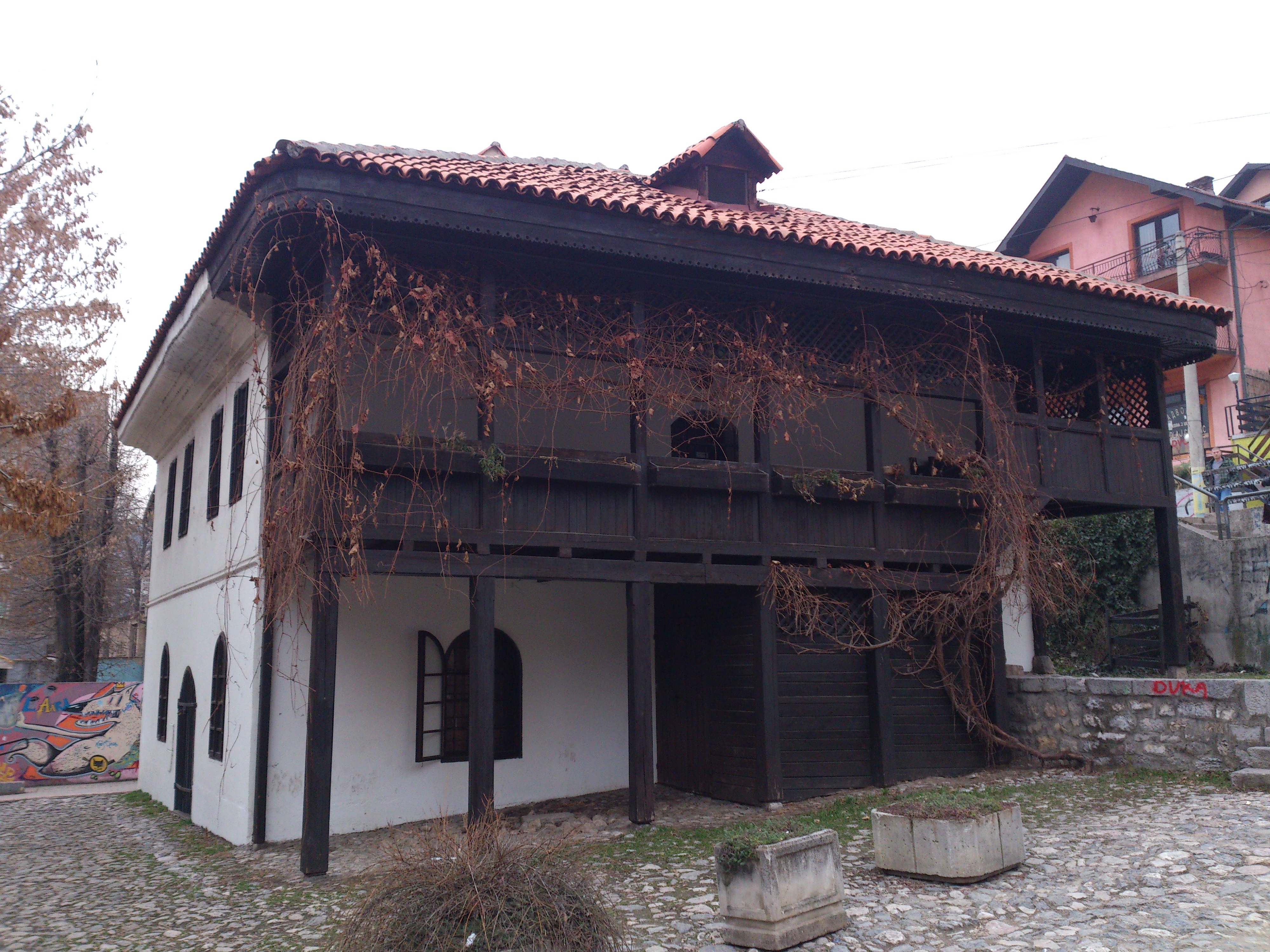 Jokanovića kuća (The house of Jokanović's), is one of the oldest buildings in Užice, a city in western Serbia. Jokanovića kuća was the property of one of the richest merchant families of Uzice in the second half of 19th century - the Jokanovic family. It is also known under the name "peccara" (The Jokanovics family traded, besides other things, with wine and brandy and owned a couple of inns in Užice).